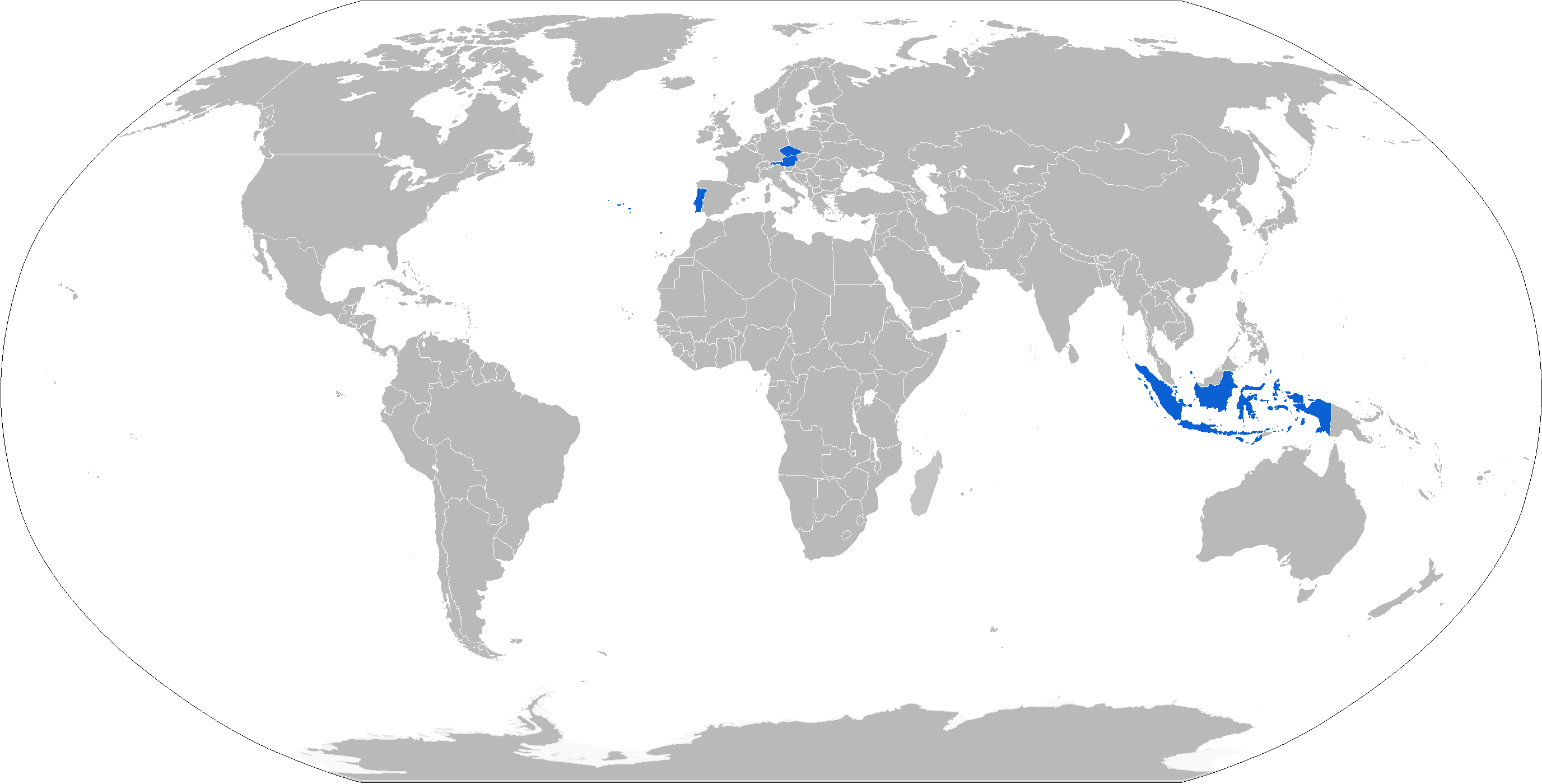 Map of Pandur 2 operators in blue